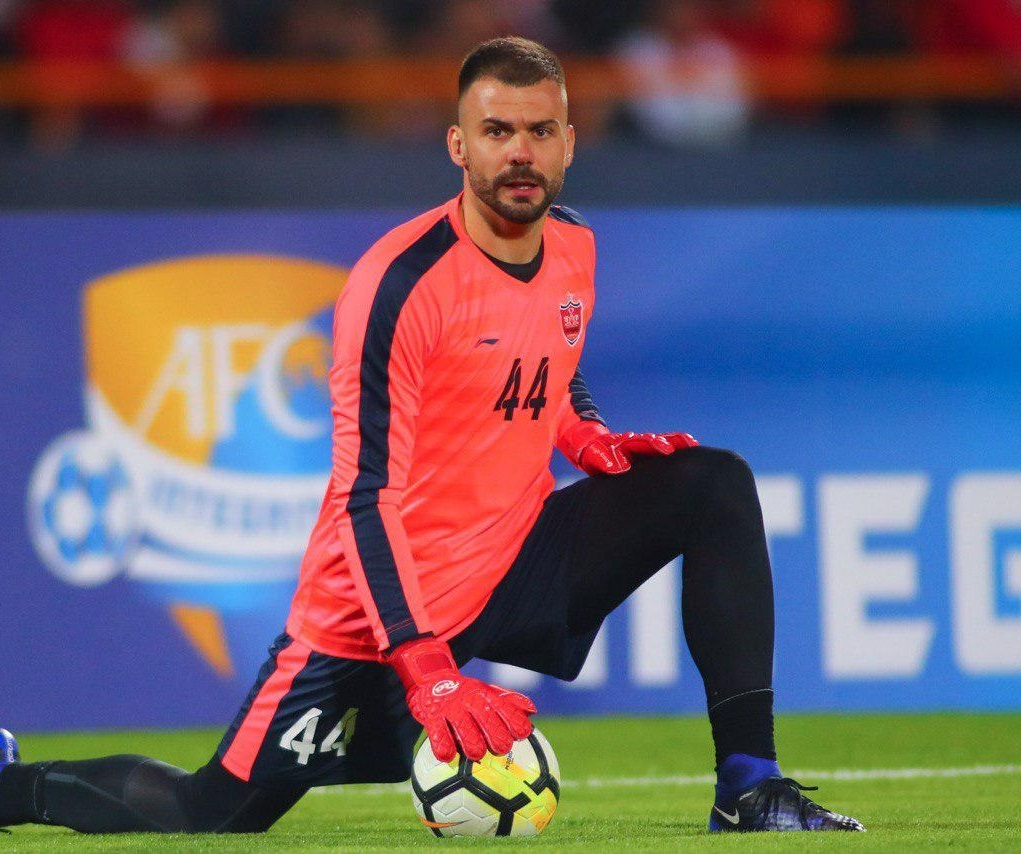 Persepolis FC v Kashima Antlers (0-0), 2018 AFC Champions League Final, Second leg, 10 November 2018